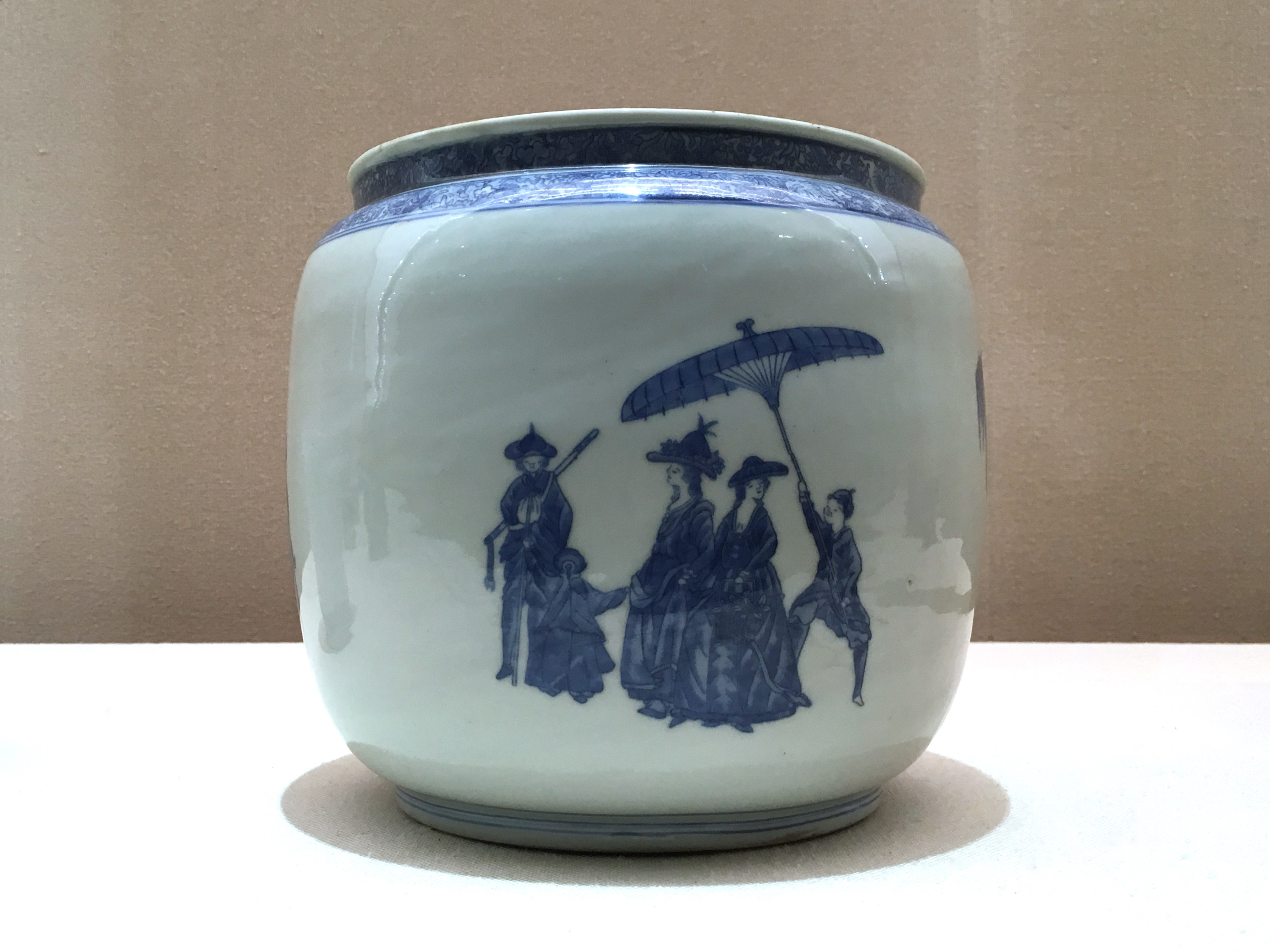 Jar porcelain, decoration transfer-printed in blue under a transparent glaze Kawana ware, Owari (Aichi) middle of the 19th century; Edo period Nagoya City Museum (#205)